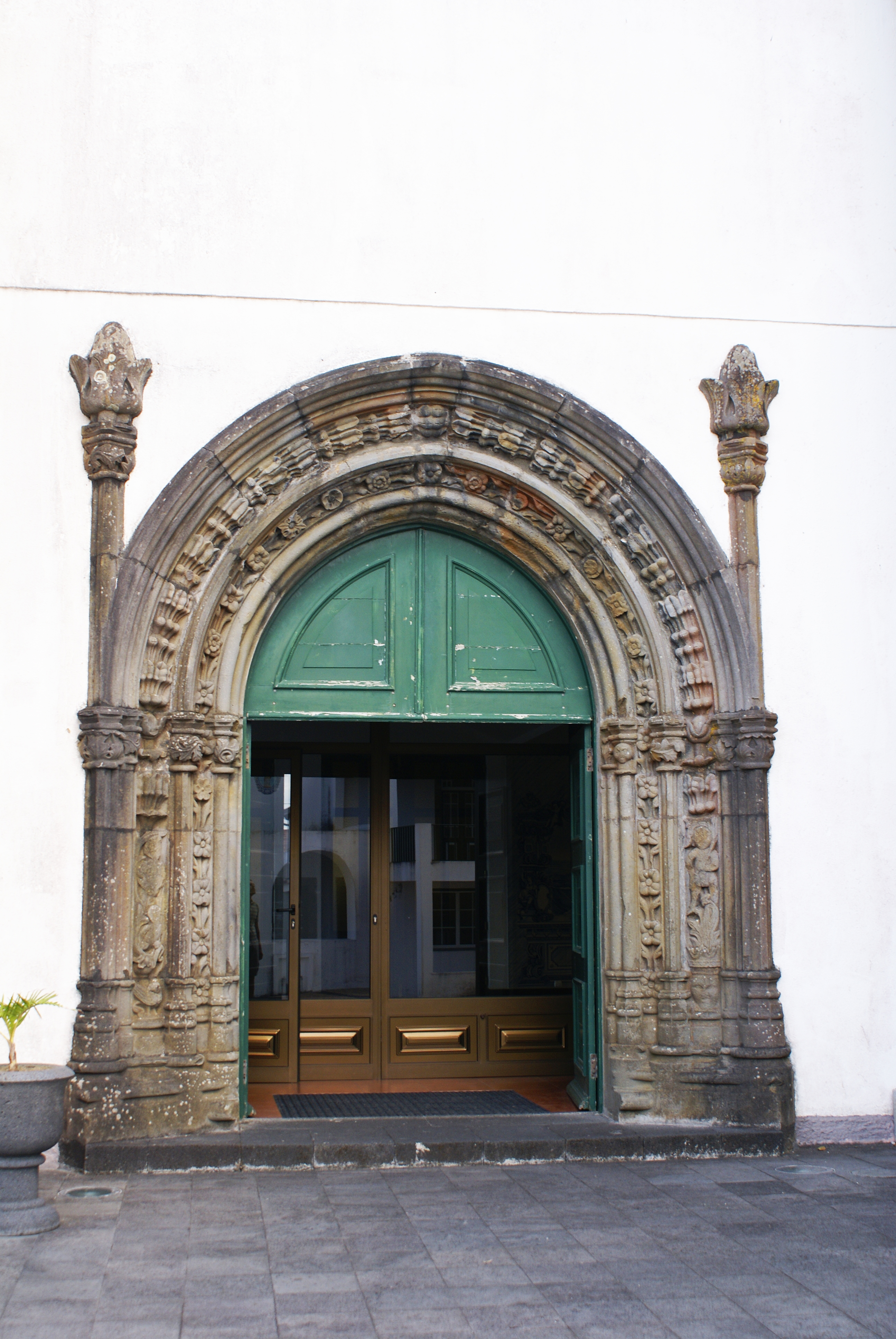 Main door of the Church of Santa Bárbara, Cedros, Horta, Faial (Azores), Portugal